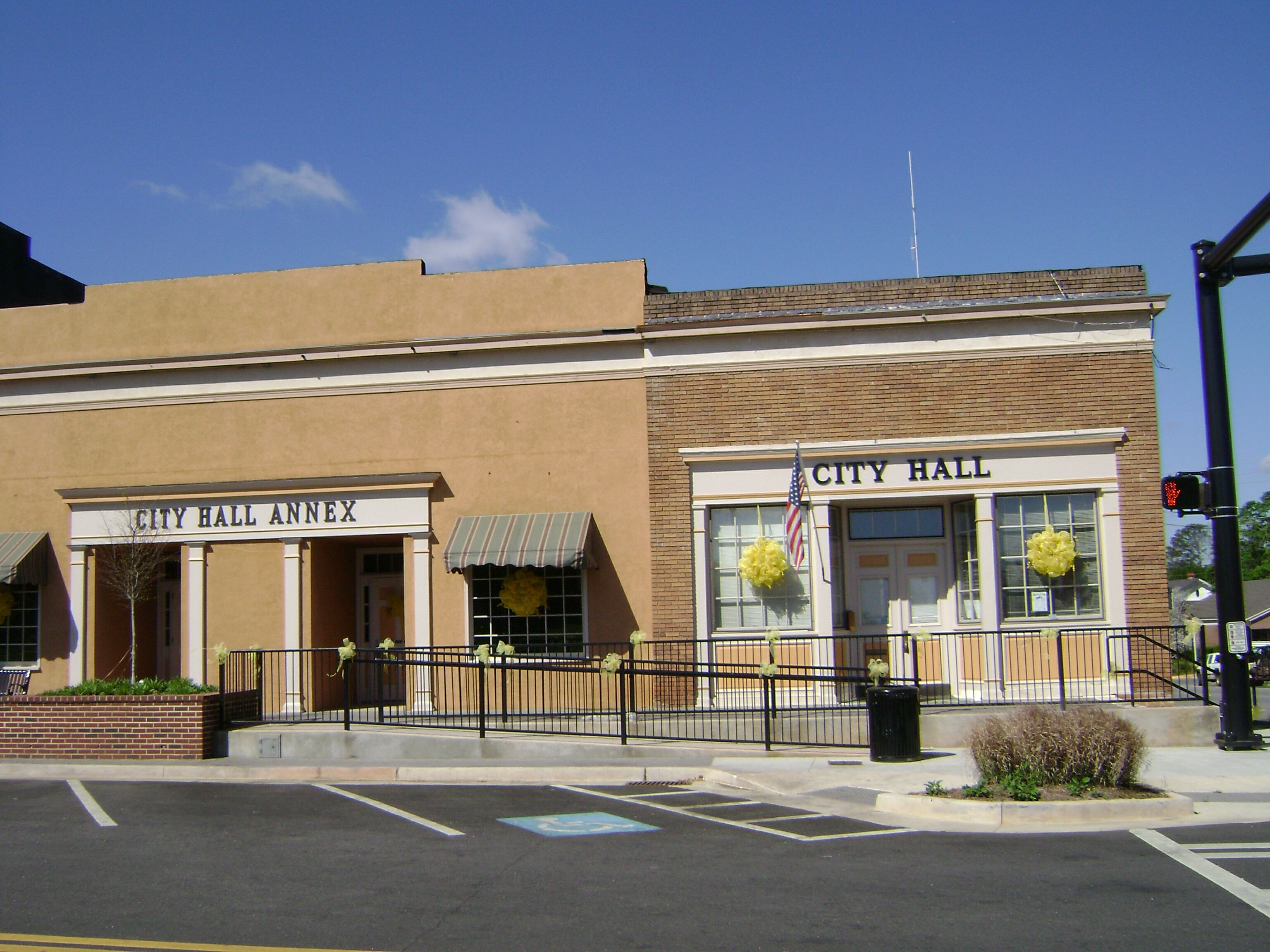 Forsyth City Hall in Forsyth, Monroe County, Georgia. Corner of N. Jackson St. and W. Johnston St., across the street from the county courthouse.